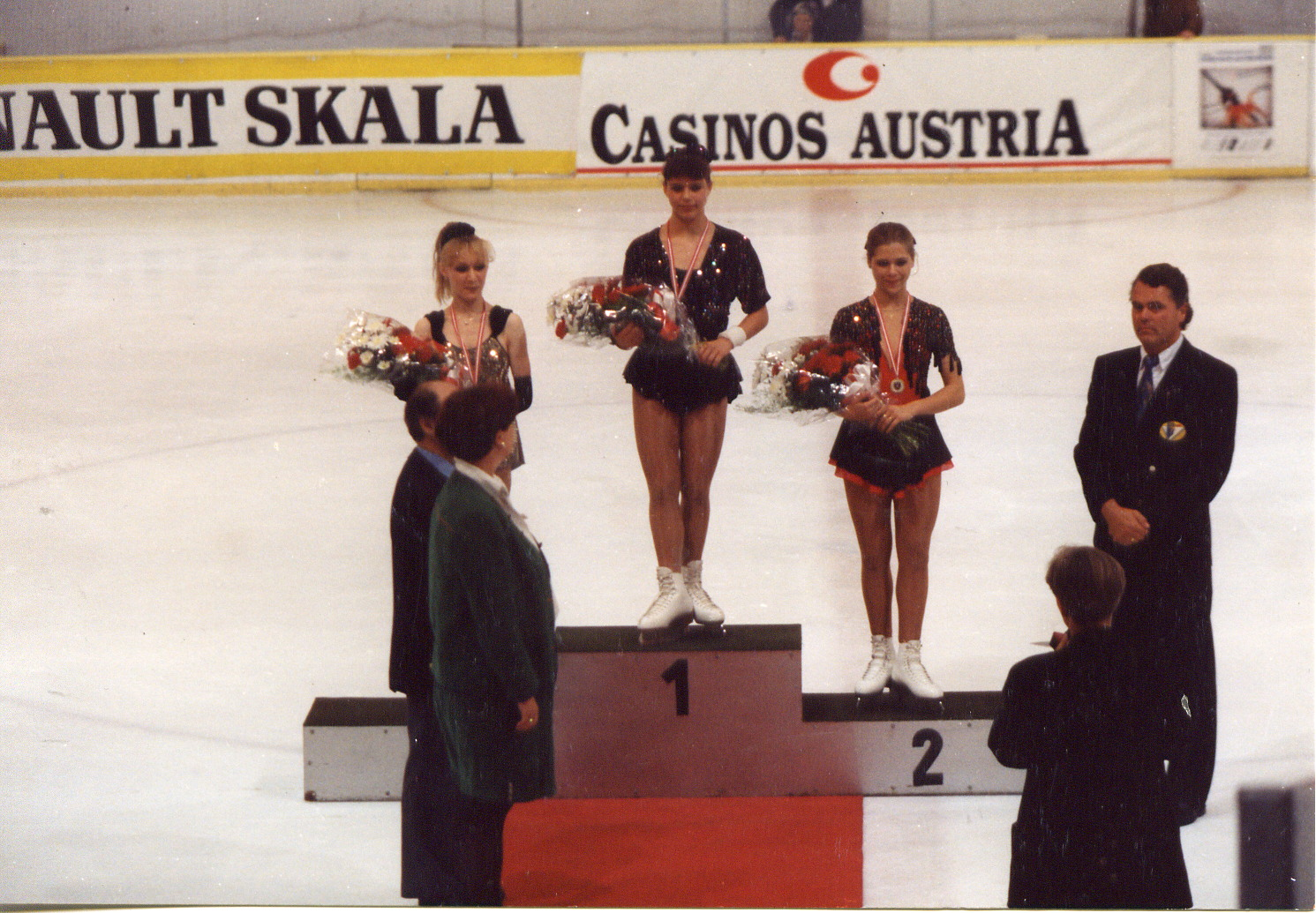 1993 Karl Schäfer Memorial Ladies Podium. From left: Olga Markova (3rd), Krisztina Czakó (1st), Tanja Szewczenko (2nd)